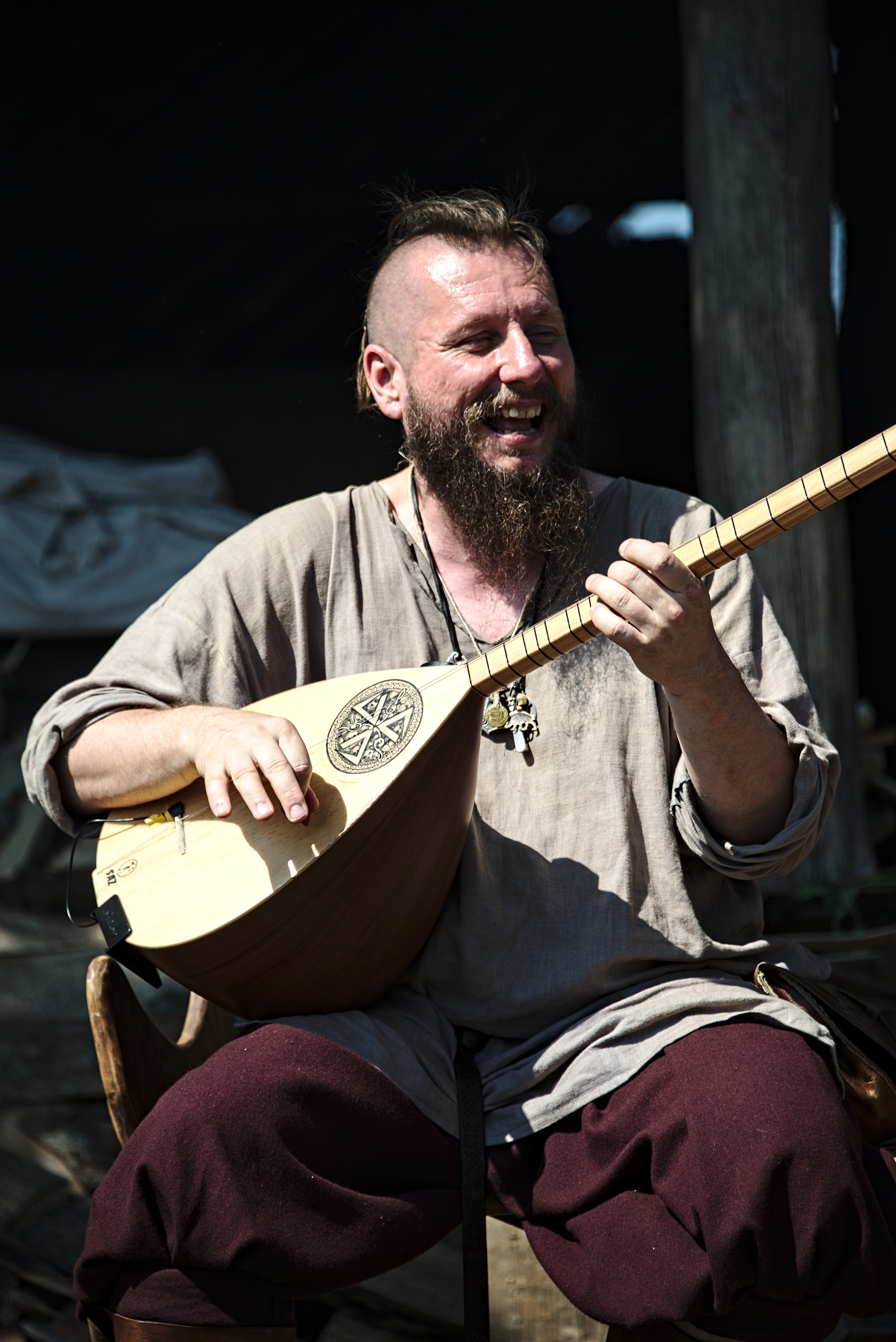 Mikołaj Rybacki from Polish folk band Percival in Wiking and Slavic Festival in Wolin 2018